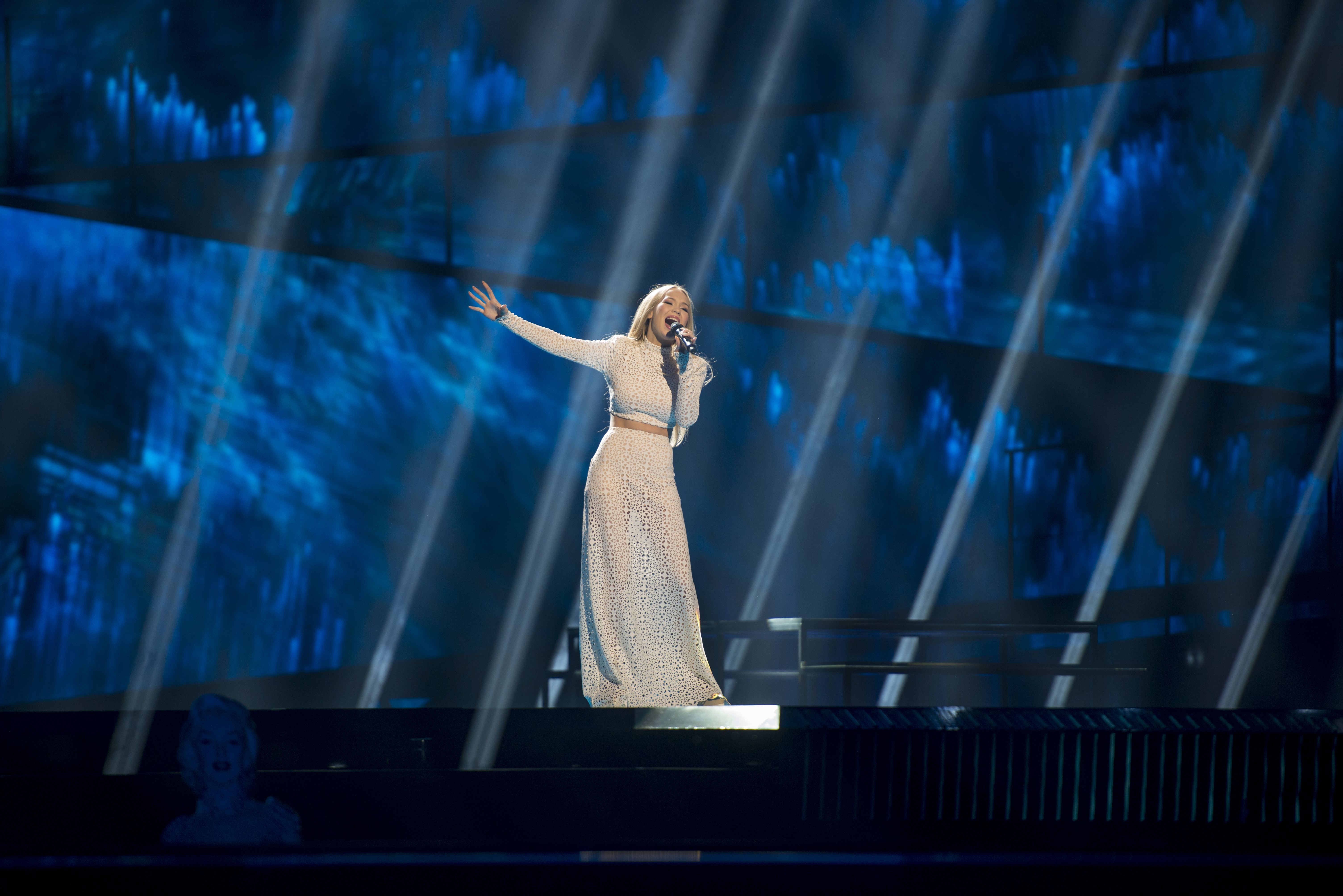 Agnete representing Norway with the song "Icebreaker" during a rehearsal before the second semi final of the Eurovision Song Contest 2016 in Stockholm. (Help translate this text)